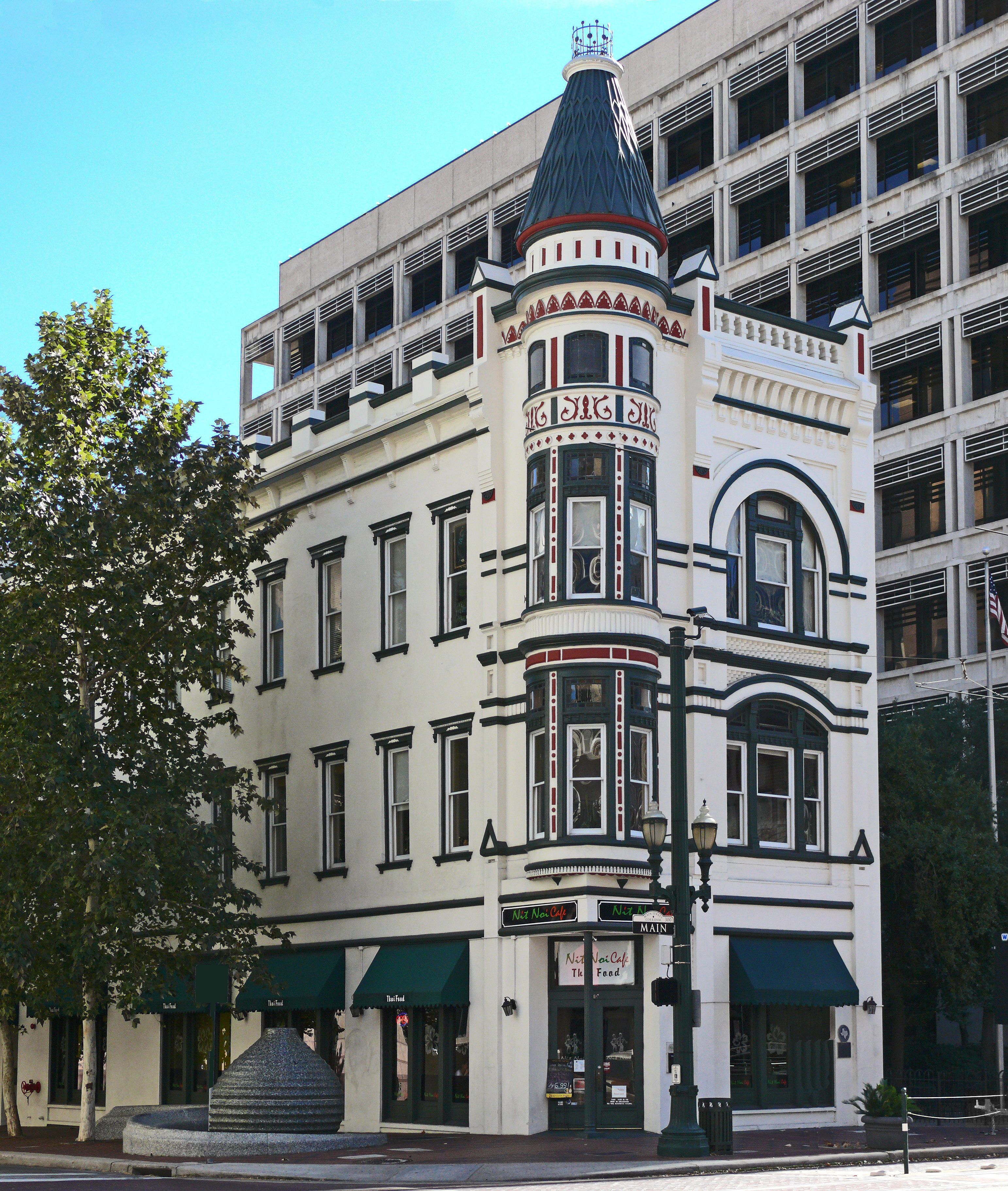 This late-Victorian commercial building with a 3-story corner turret and Eastlake decorative elements was designed by George E. Dickey in 1889. Evidence indicates that the 1889 construction may have been a renovation of an 1861 structure built by William A. Van Alstyne and purchased in 1882 by John Jasper Sweeney and Edward L. Coombs. Gus Fredericks joined the Sweeney and Coombs Jewelry firm before 1889. Coordinates N 29° 45.724 W 095° 21.644